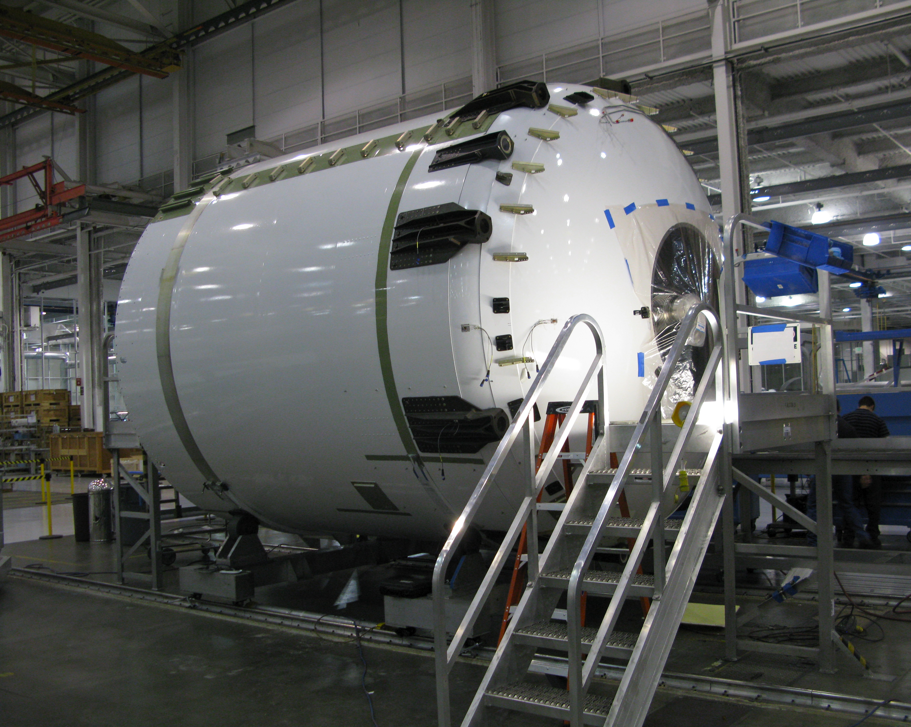 For Falcon 9 Flight Two, this second stage fuel tank is under assembly at SpaceX. Around the rim of the fuel tank are connection points for stage separation.